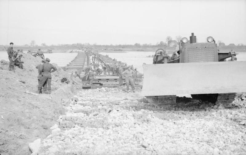 The British Army in North-west Europe 1944-45- Class 40 Bridge Over the Rhine The bridge with bulldozer making roadway down to it.